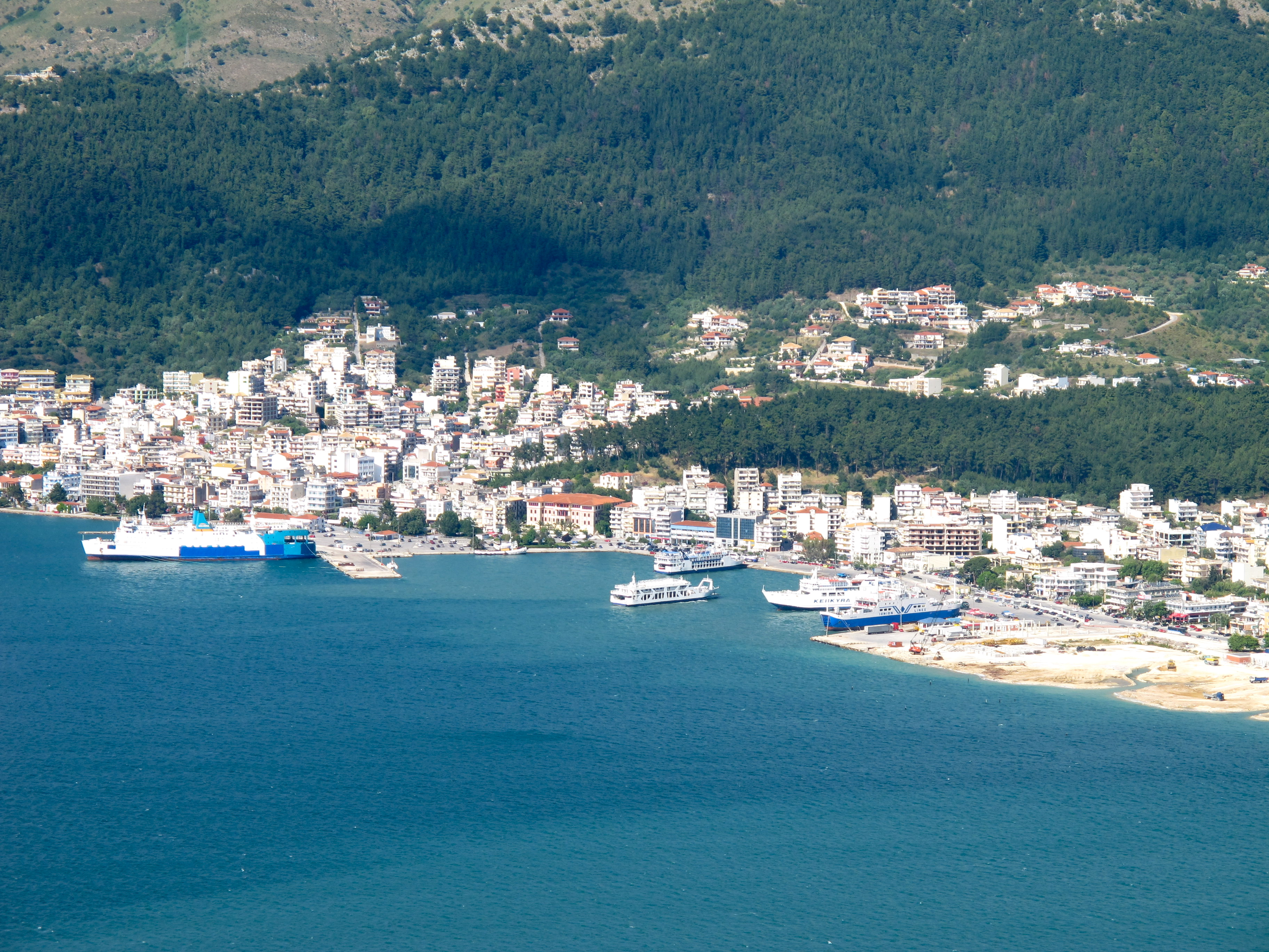 old port